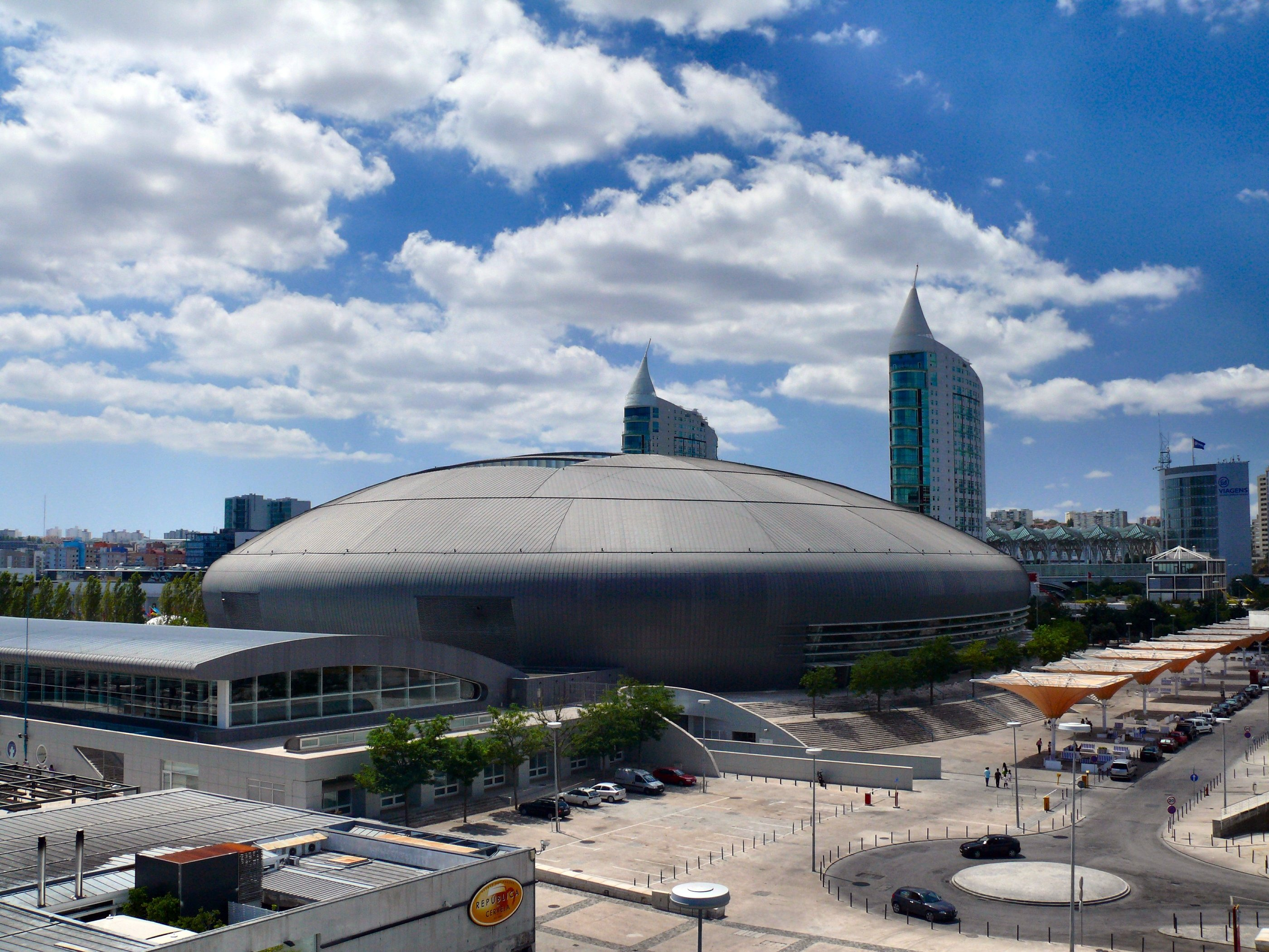 The Atlantic Hall (Pavilhao Atlantico) at Lisbon, built for the universal expo 1998, now being an expo/congress hall. Lisbon, Portugal, August 2008 [1]